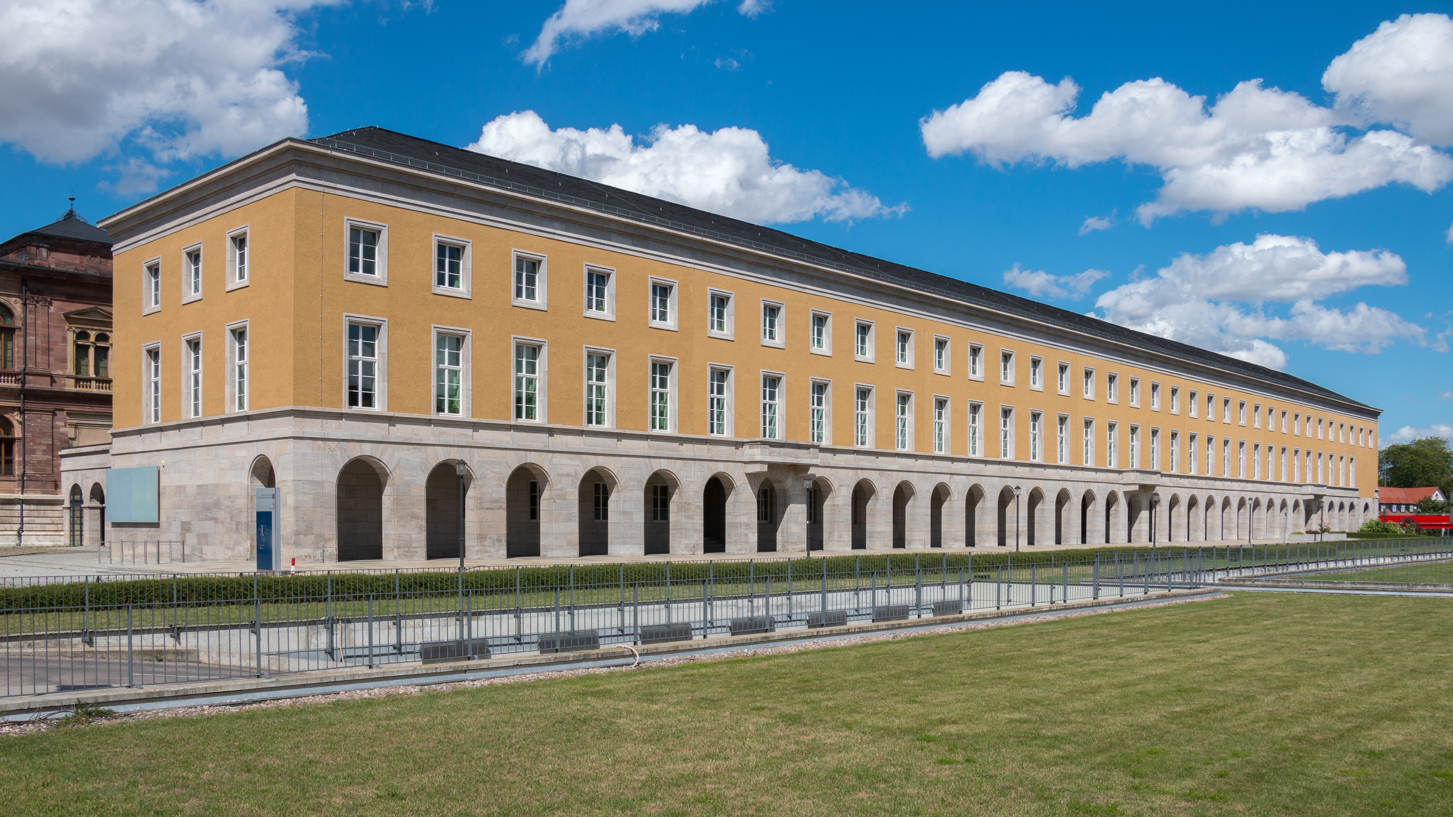 The "Gauforum" in Weimar